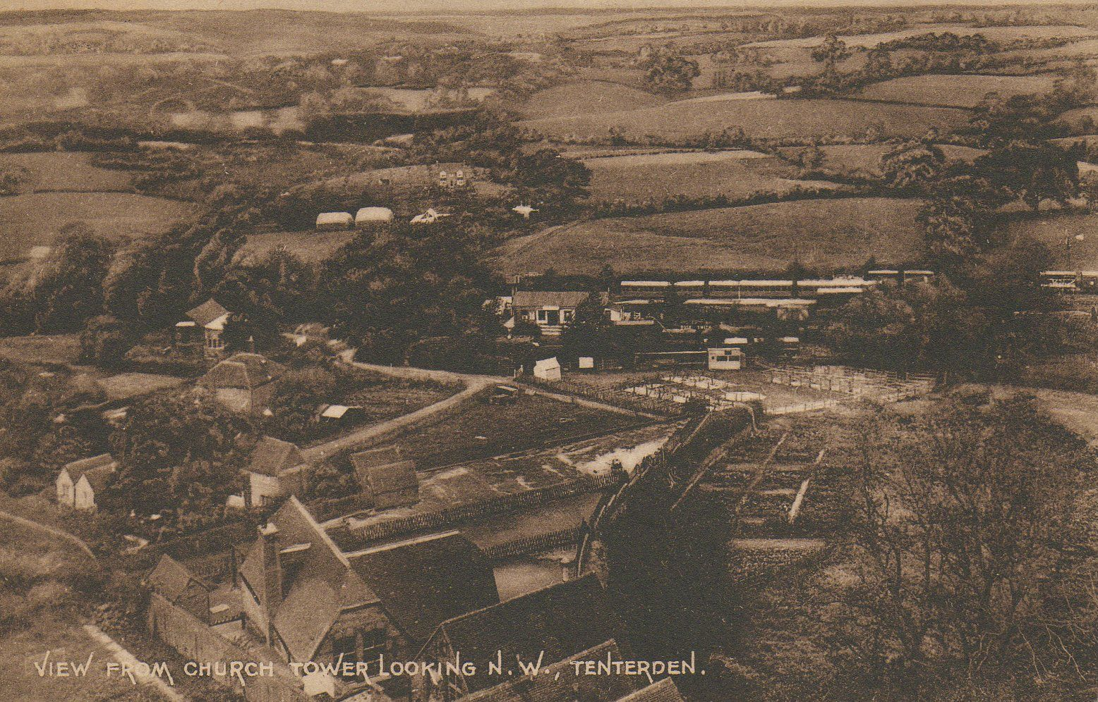 A view from the tower of St Mildred's Church, Tenterden looking north west. Note the railway station centre right, windpump on extreme right of picture.